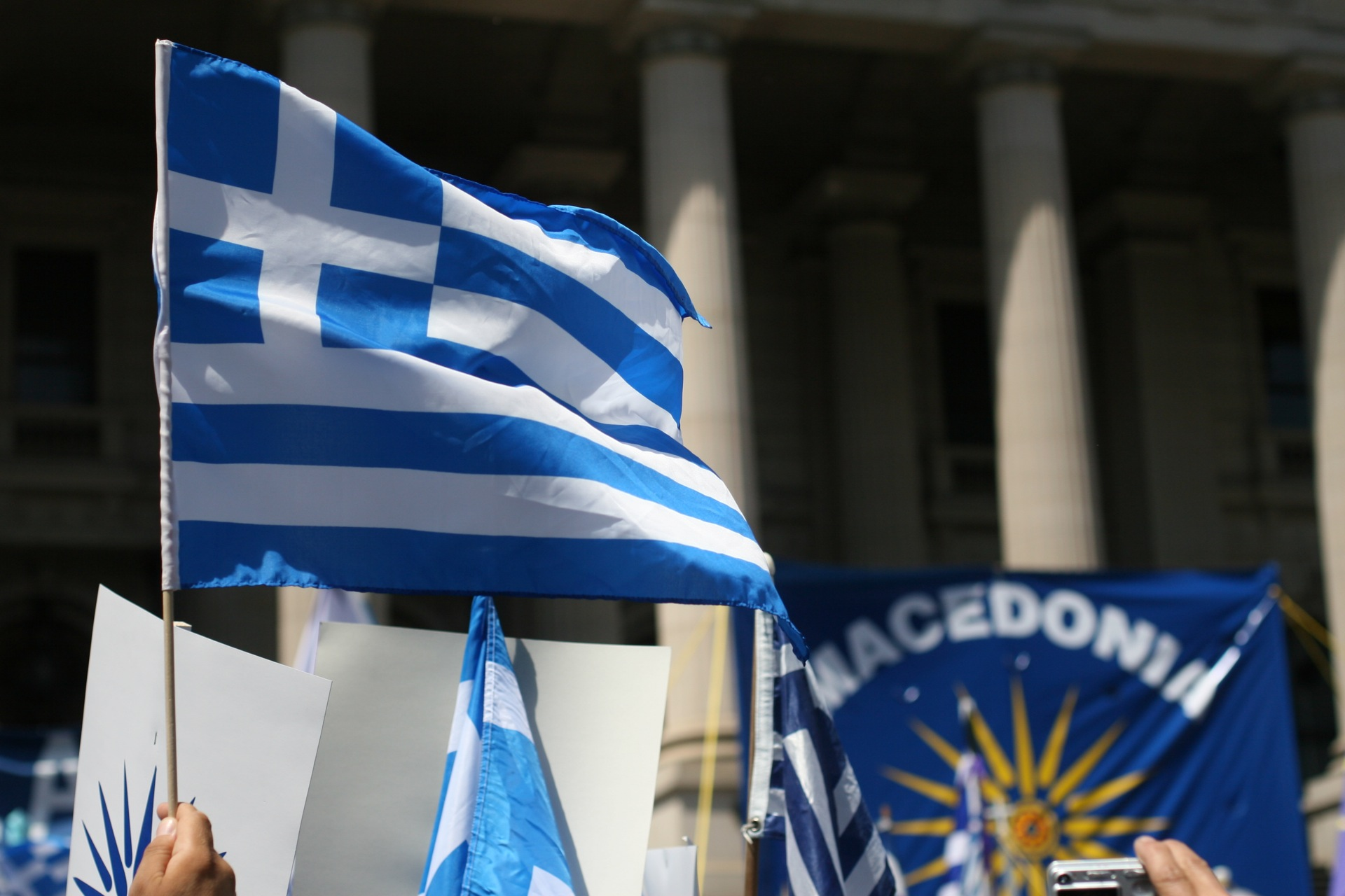 Macedonia is Greek Rally Sunday, November 18th 2007